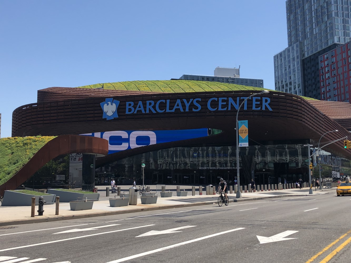 Barclay's Center on a nice Spring morning in Brooklyn New York